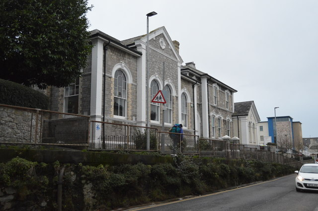 Former Newton Abbot Hospital